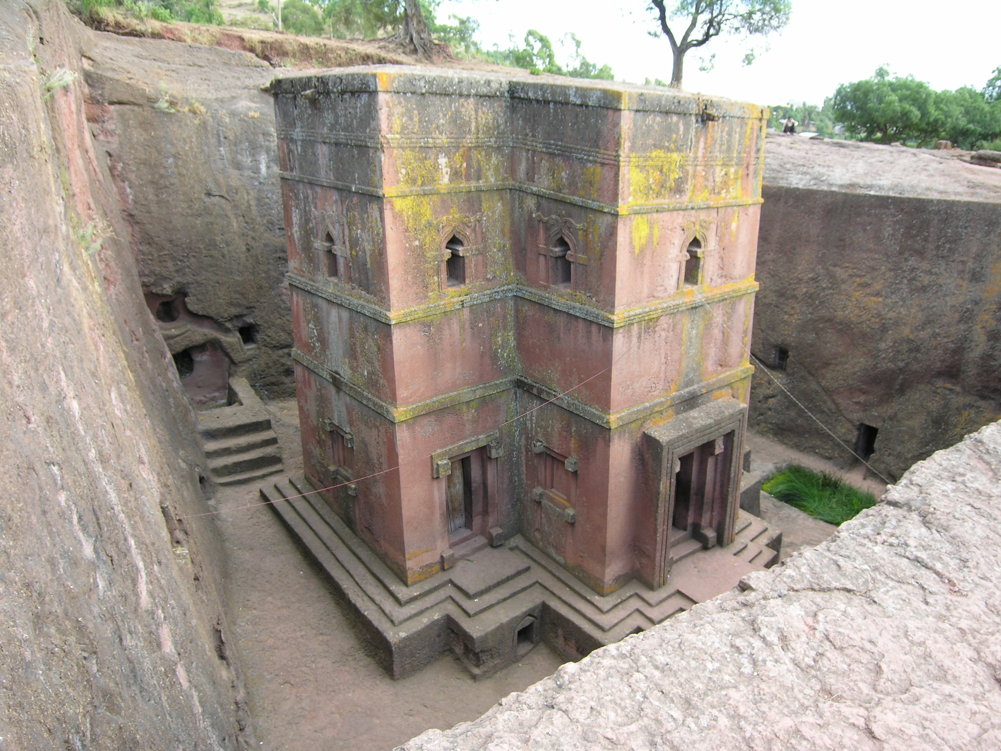 Rock-Hewn Churches, Lalibela (Ethiopia)